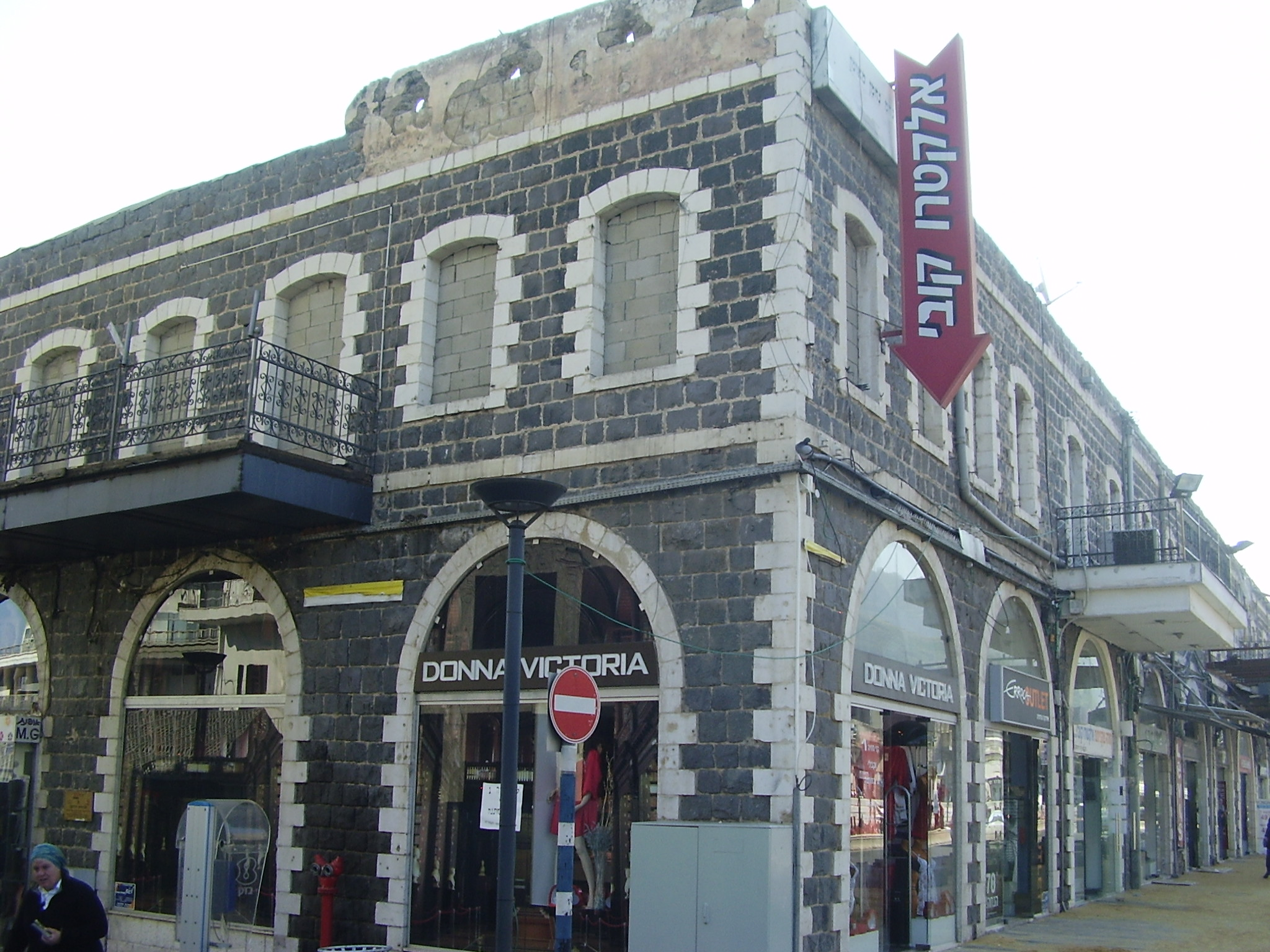 House in Galilee street, Tiberias. Former "Adler Hotel"